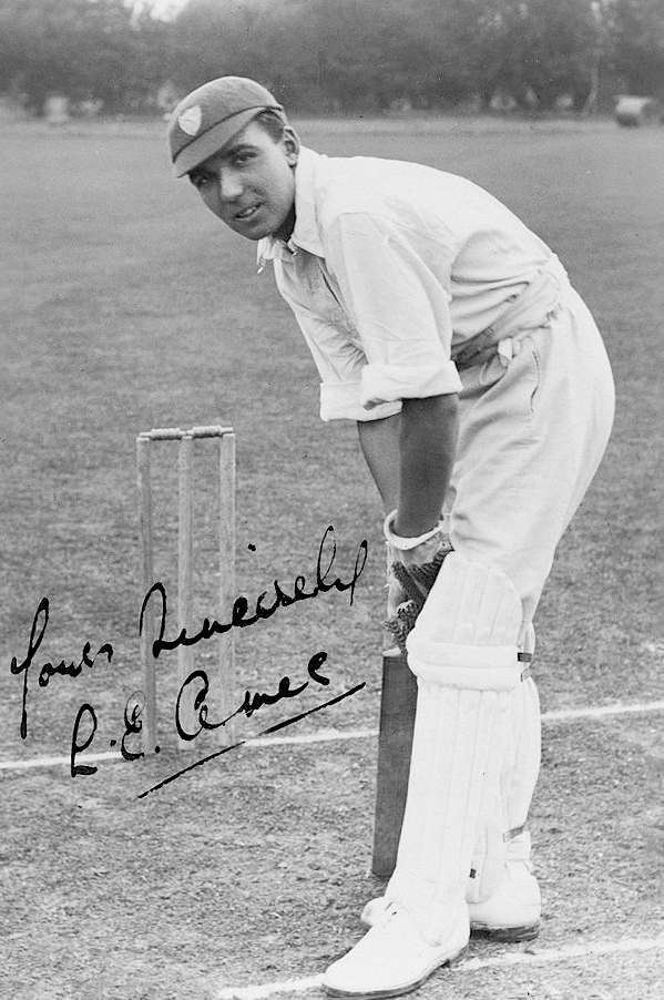 Cricket, Circa 1930, A picture of LEG (Leslie Ethelbert George) Ames, the Kent and England wicket-keeper and right-handed batsman